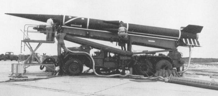 ALPHA DRACO (WS-199D) missile on launch trailer undergoing maintenance.